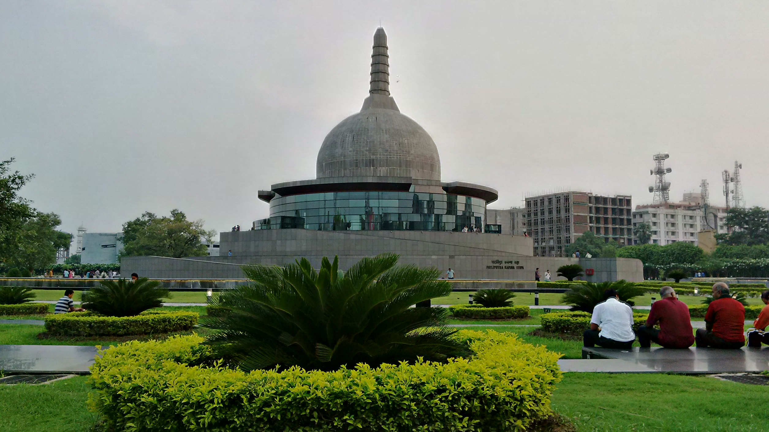 Buddha Smriti Park, Fraser Road, Patna, India